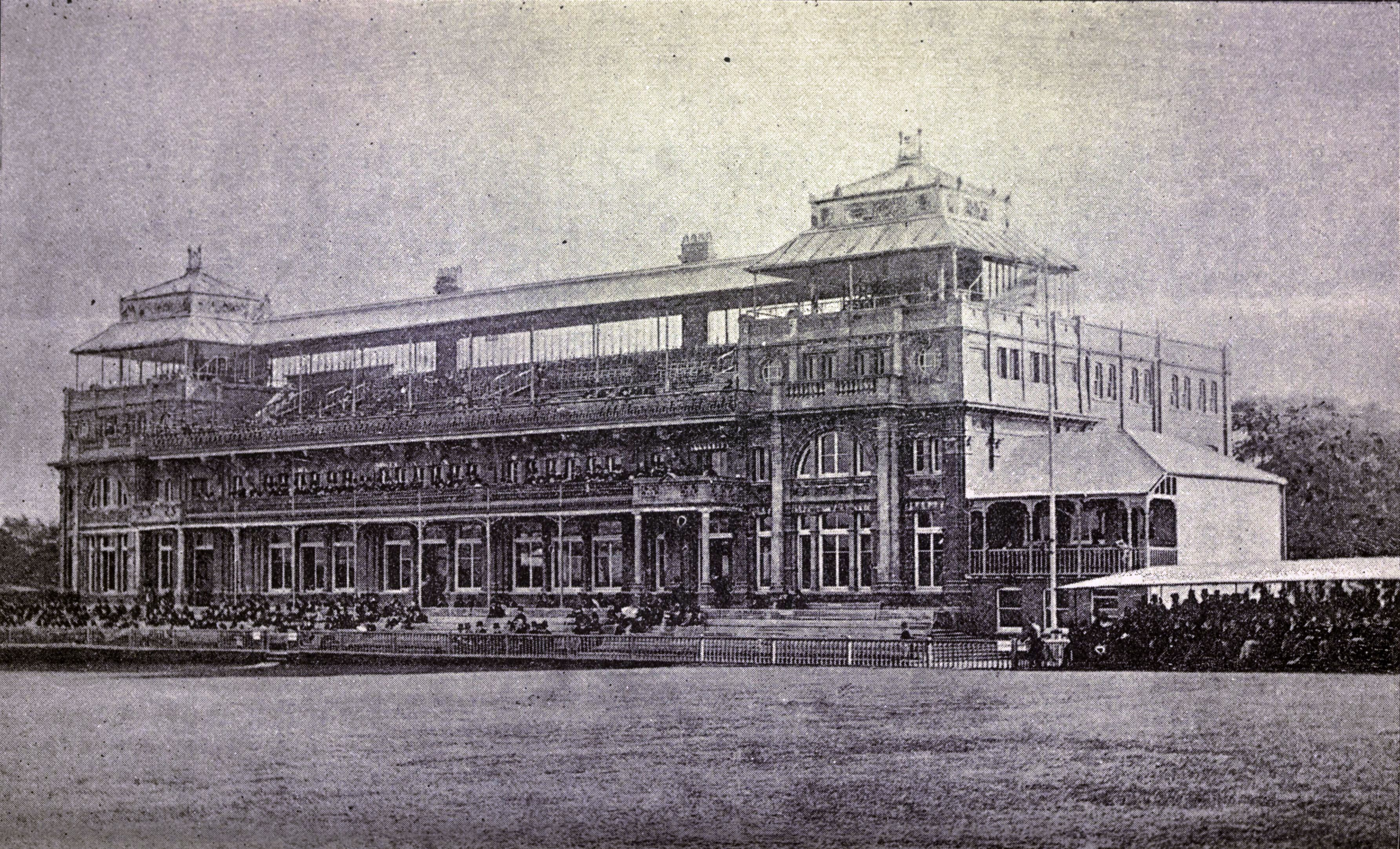 Scanned image from "Cricket", by WG Grace, 1891"